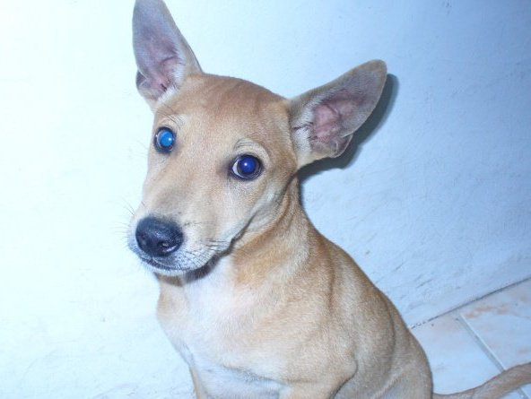 My Dog